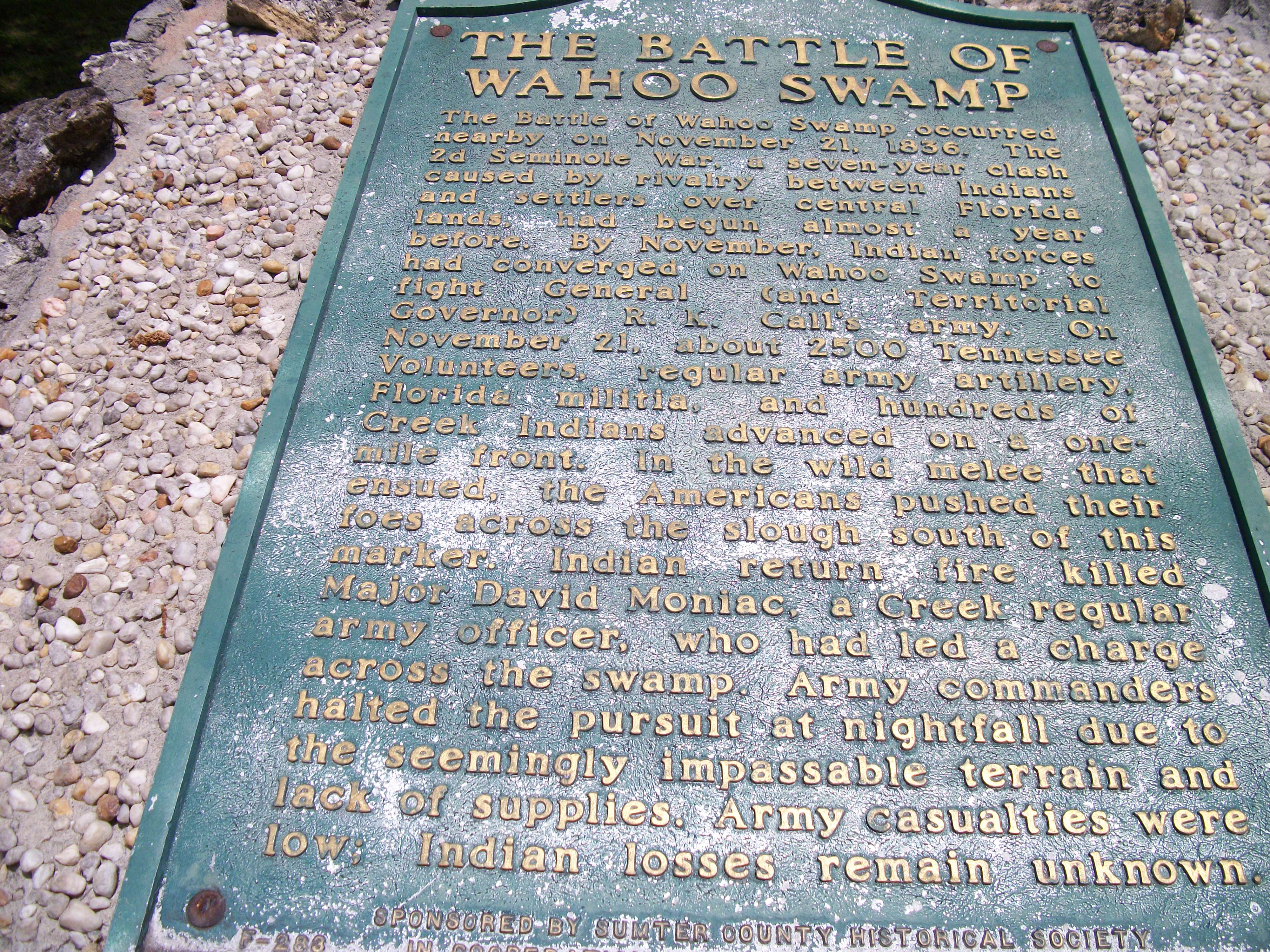 Historical marker for the Battle of Wahoo Swamp of the Seminole Wars. Located along the DeSoto Trail on Sumter County Road 48, in Wahoo, Sumter County, Florida.